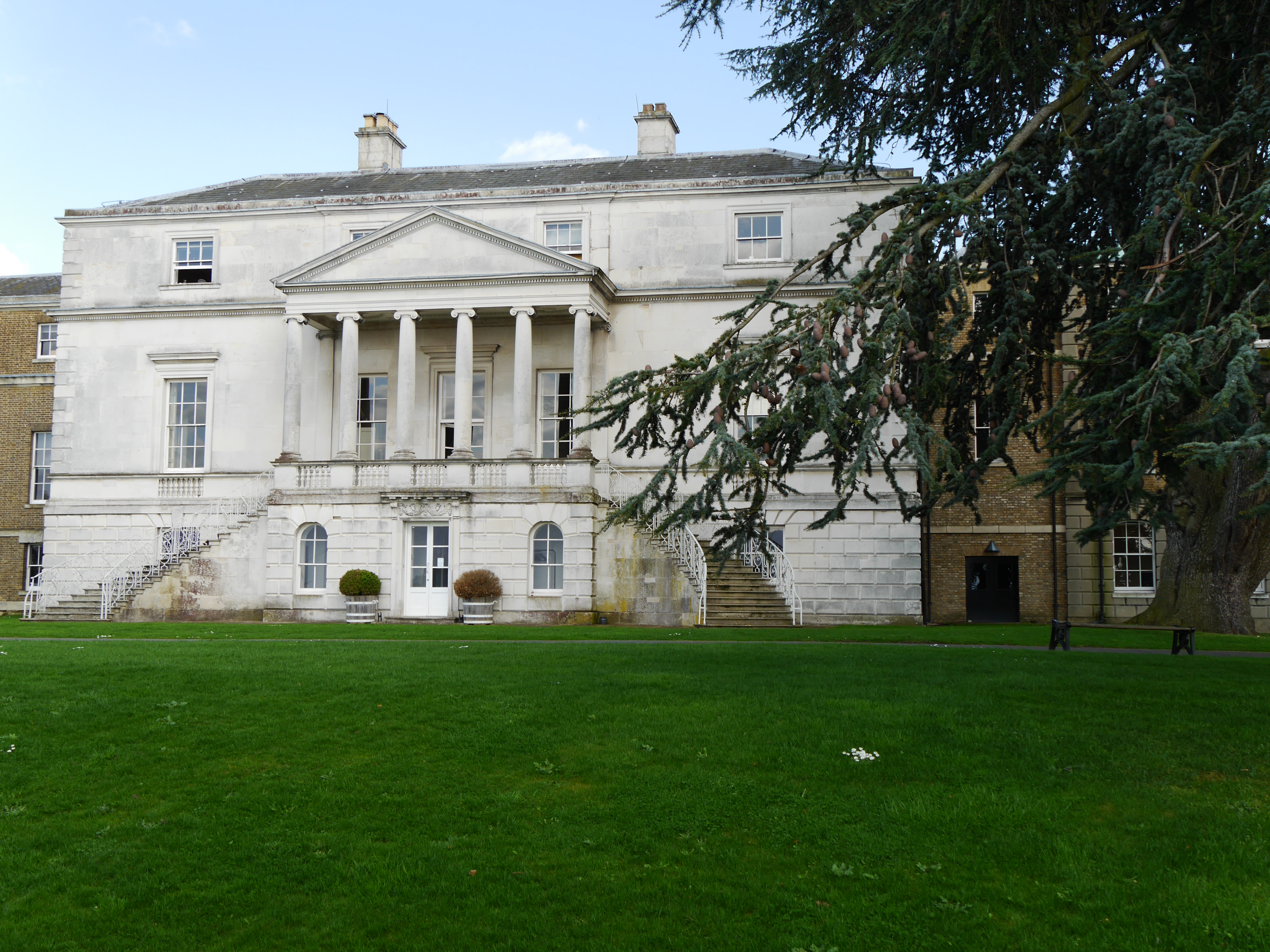 Parkstead House, Roehampton, London